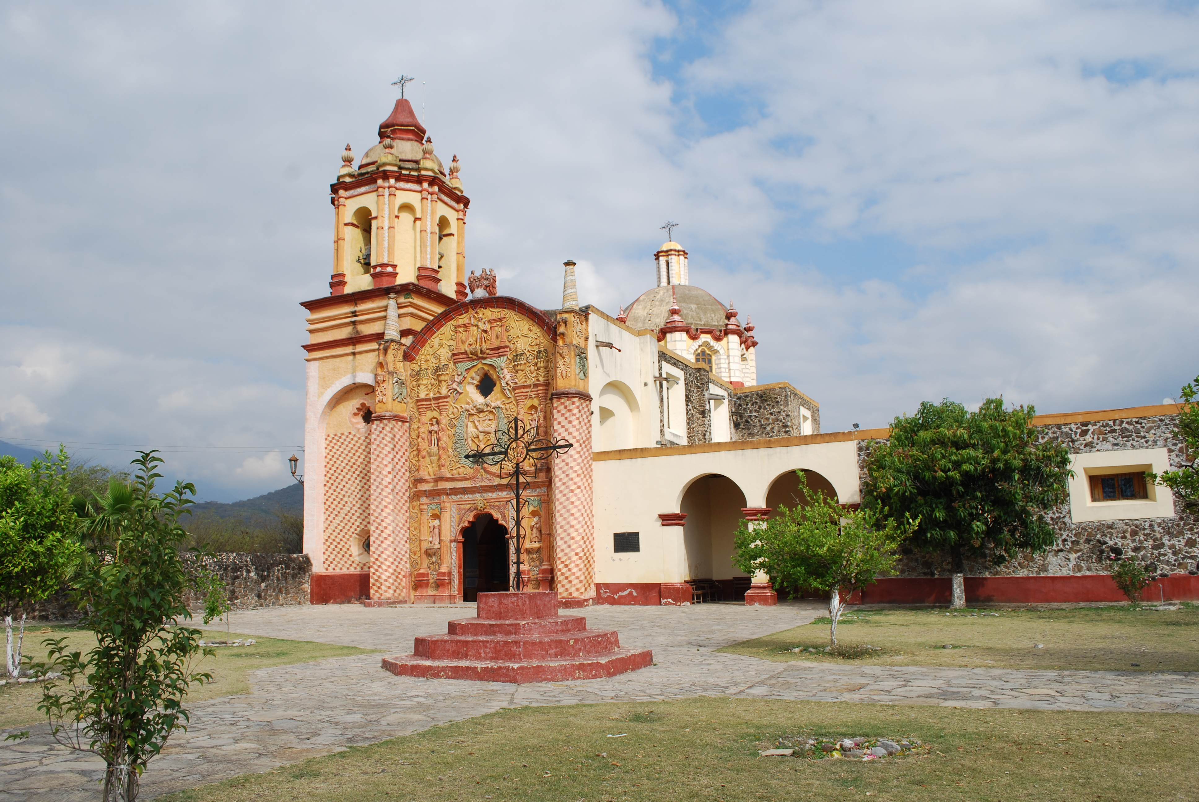 View of the mission at Concá, Arroyo Seco, Querétaro